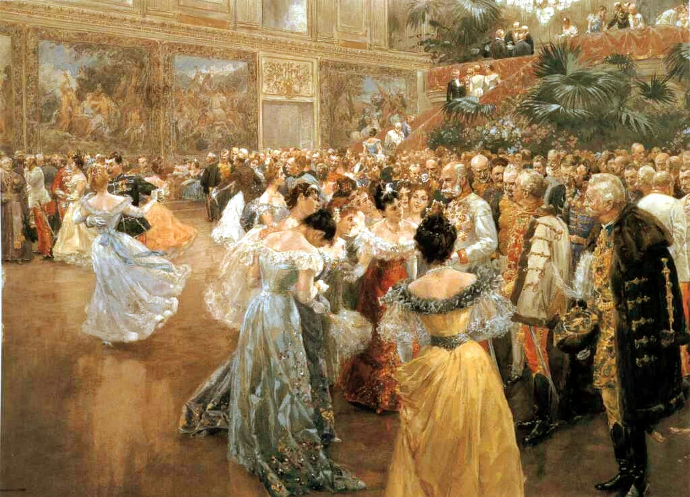 Emperor Franz Joseph I of Austria at a Ball in Vienna in 1900, to celebrate the beginning of a new century.